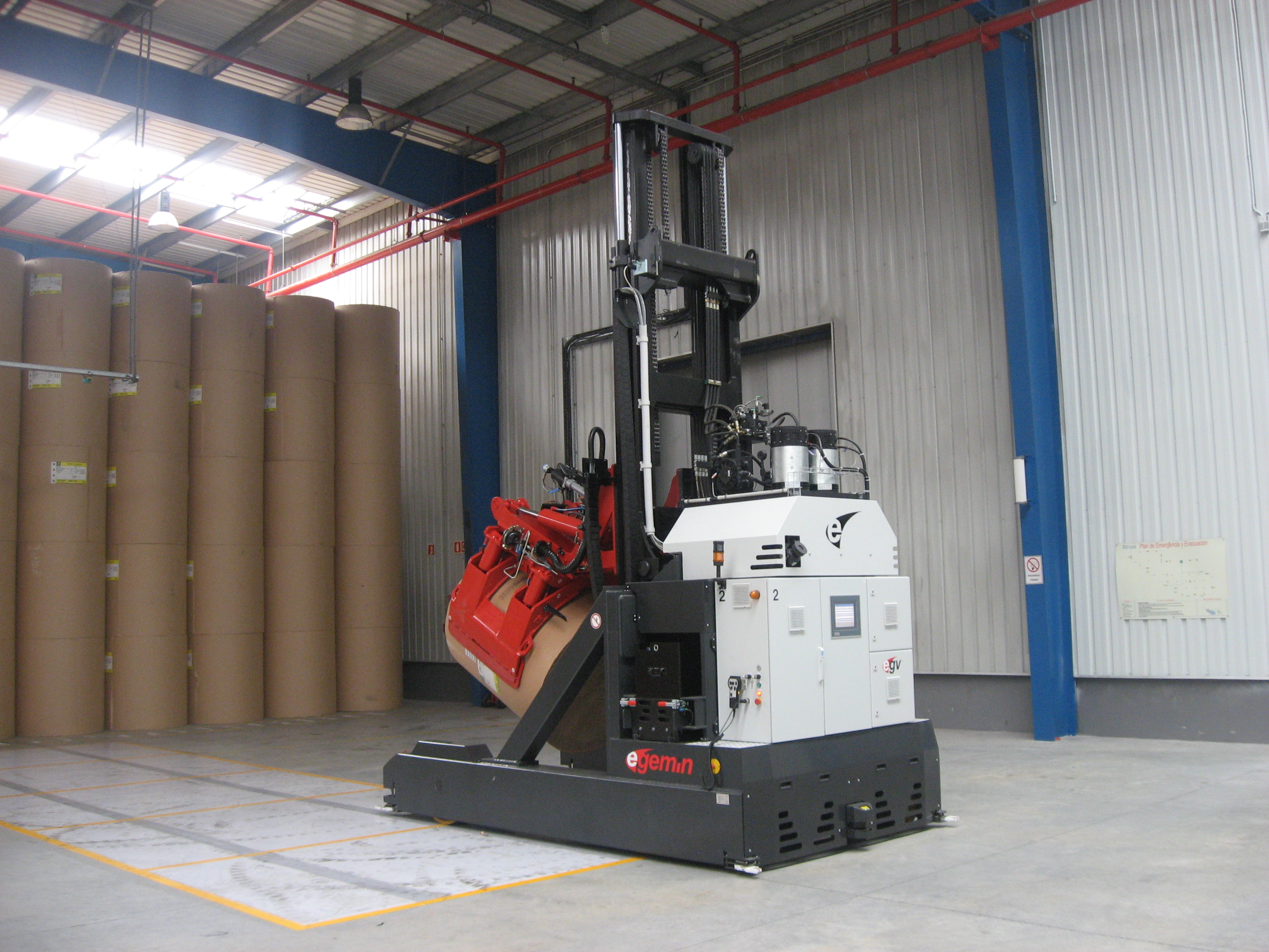 Curved clamps allow this type of clamp AGV to pick rolls of paper and move them to production areas.